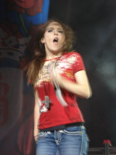 Belinda at Auditorio Coca Cola. Monterrey